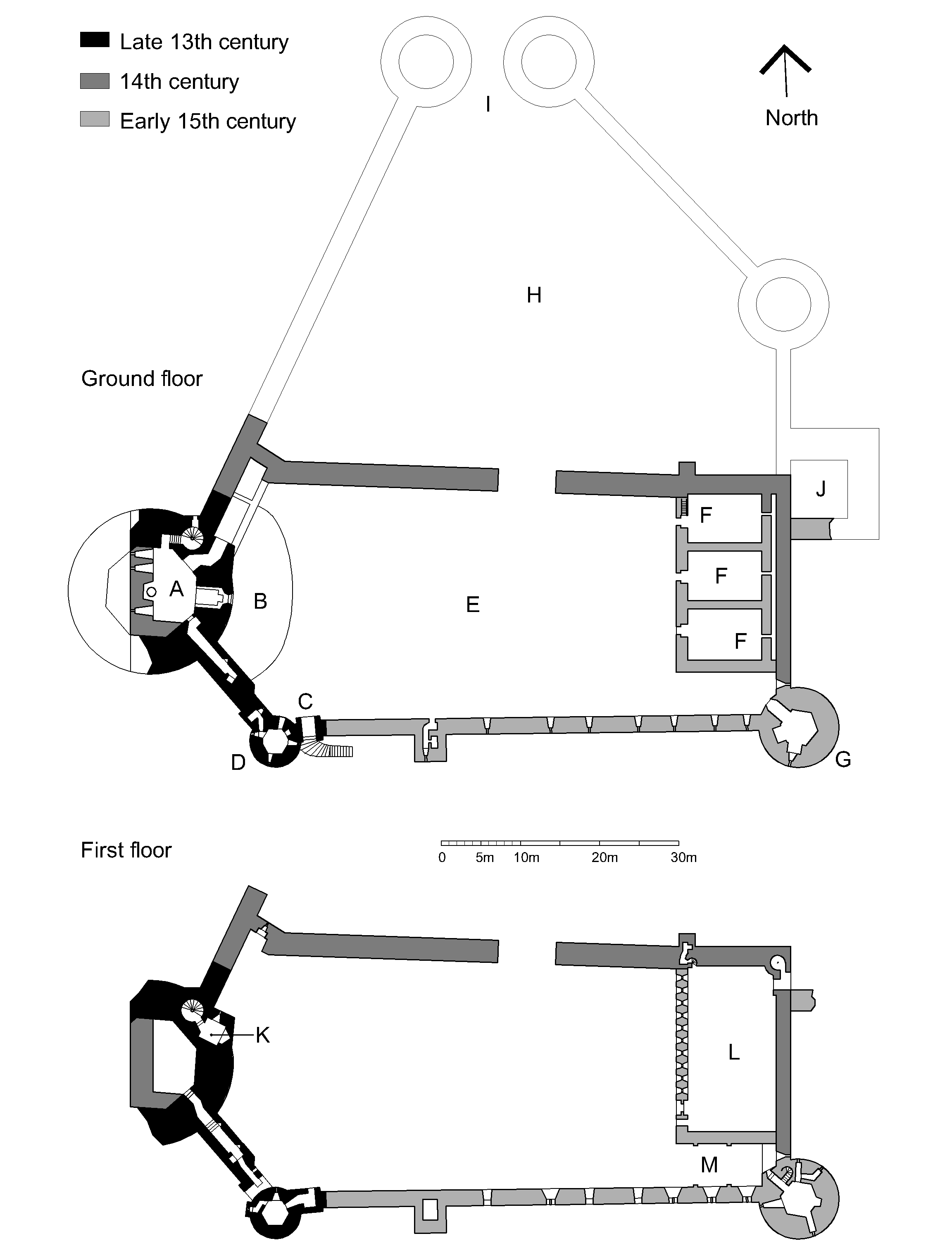 Plans of Bothwell Castle, Scotland. Key: A=Donjon, B=Ditch, C=Postern, D=South-west tower, E=Courtyard, F=Cellars, G=South-east tower, H=Outer courtyard, I=Foundations of gatehouse, J=Foundations of north-east tower, K=Portcullis room, L=Hall, M=Site of chapel.